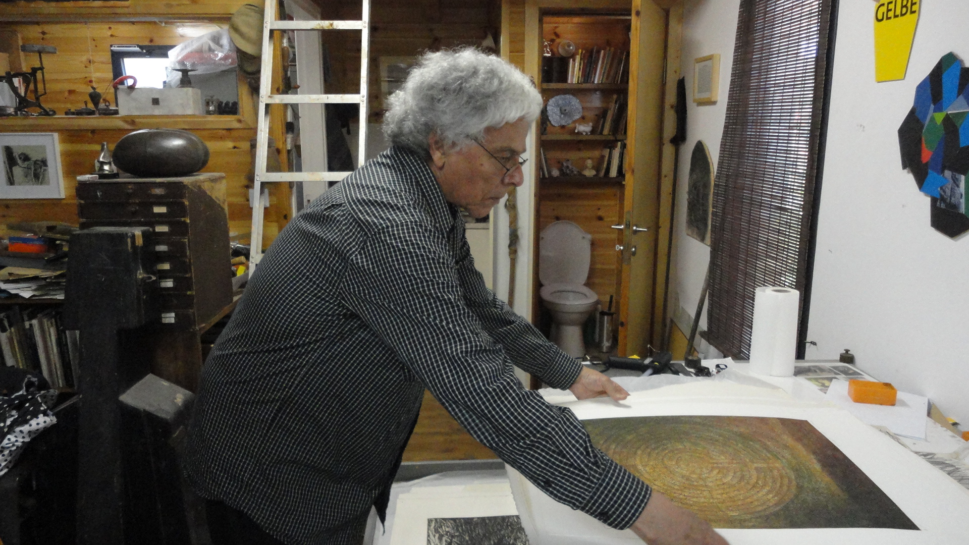 Avraham Eilat in his sudio, Ein Hod, 2013